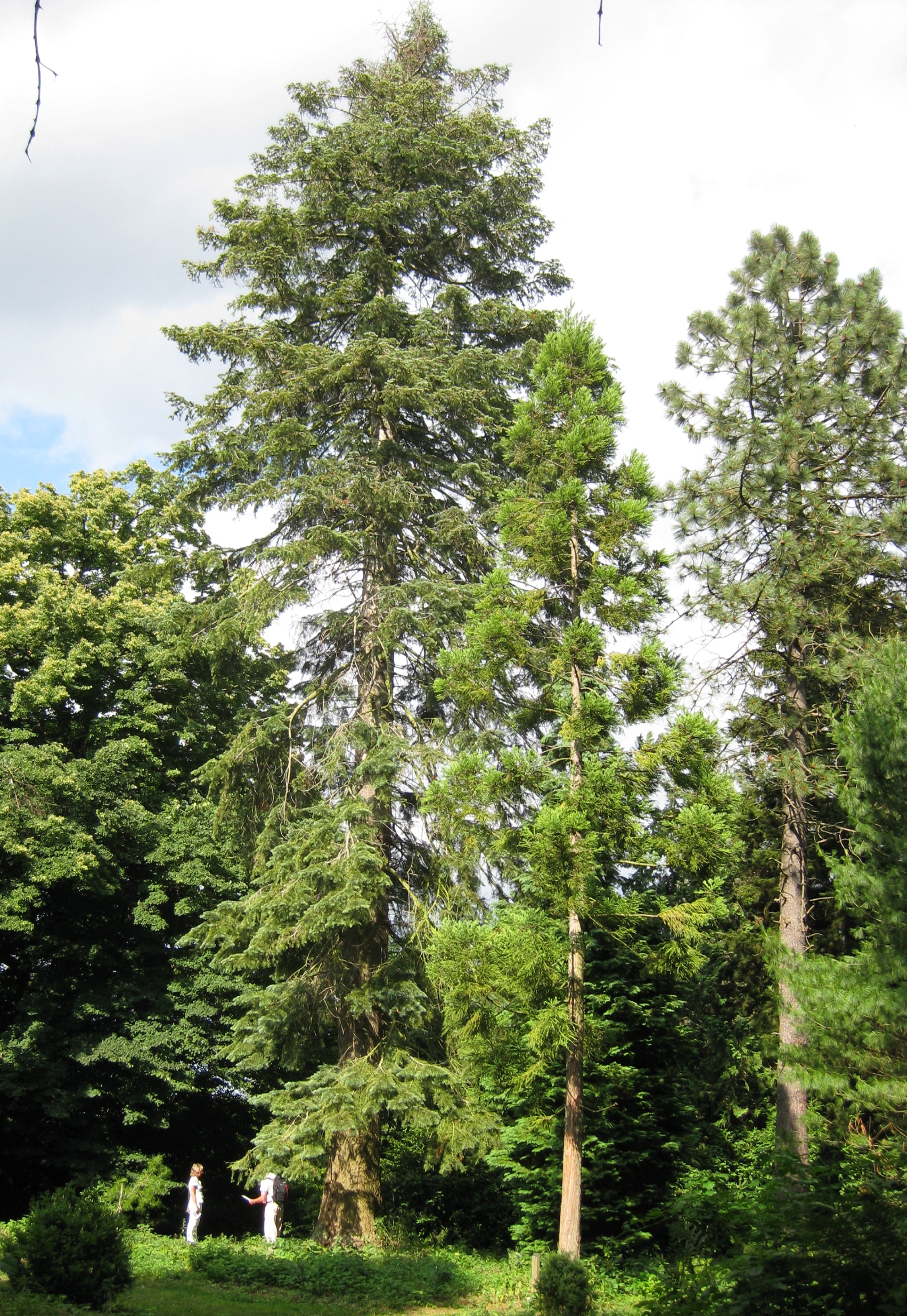 The arboretum at Kiviks Esperöd, Österlen, Skåne, Sweden